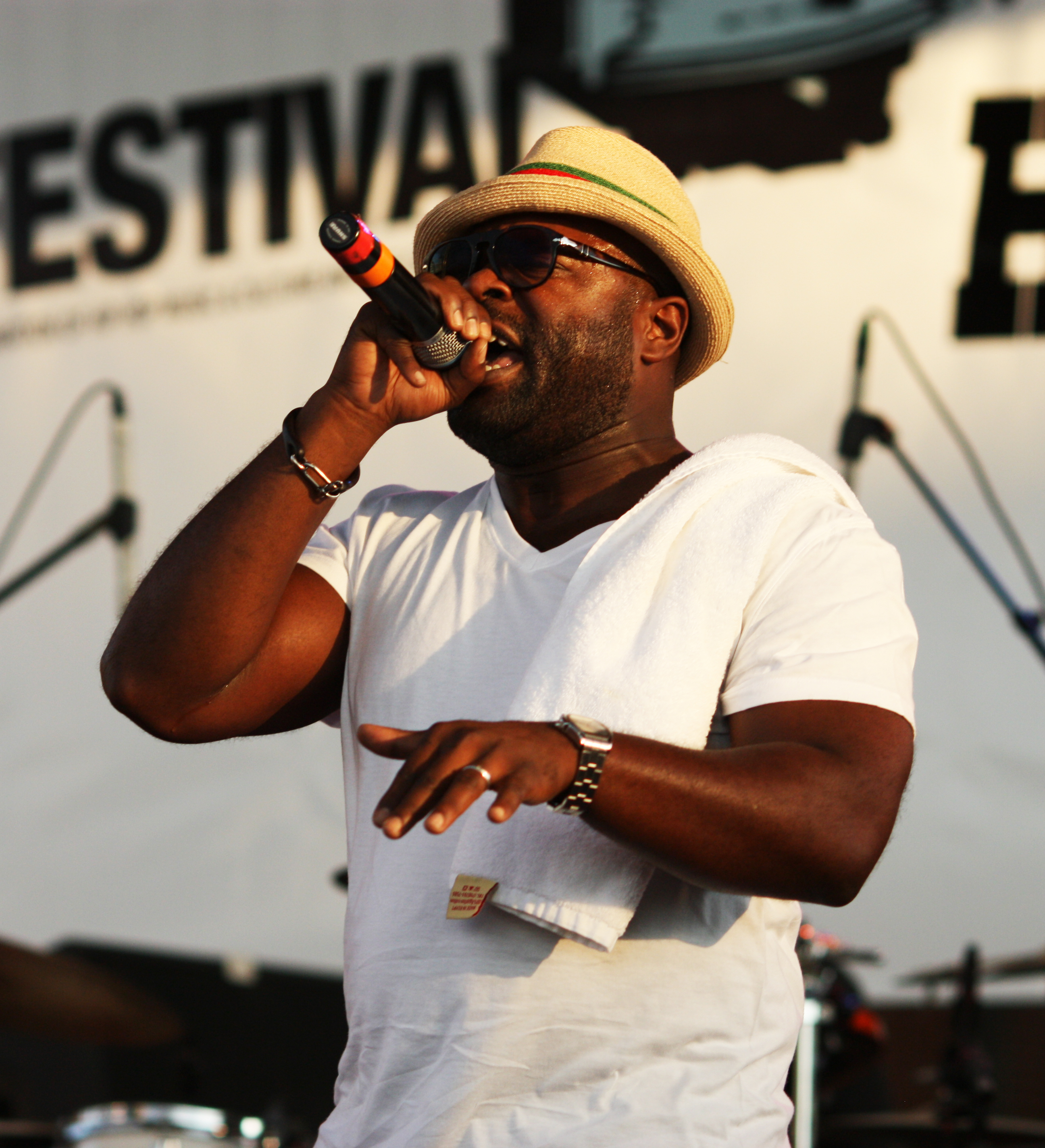 Black Thought